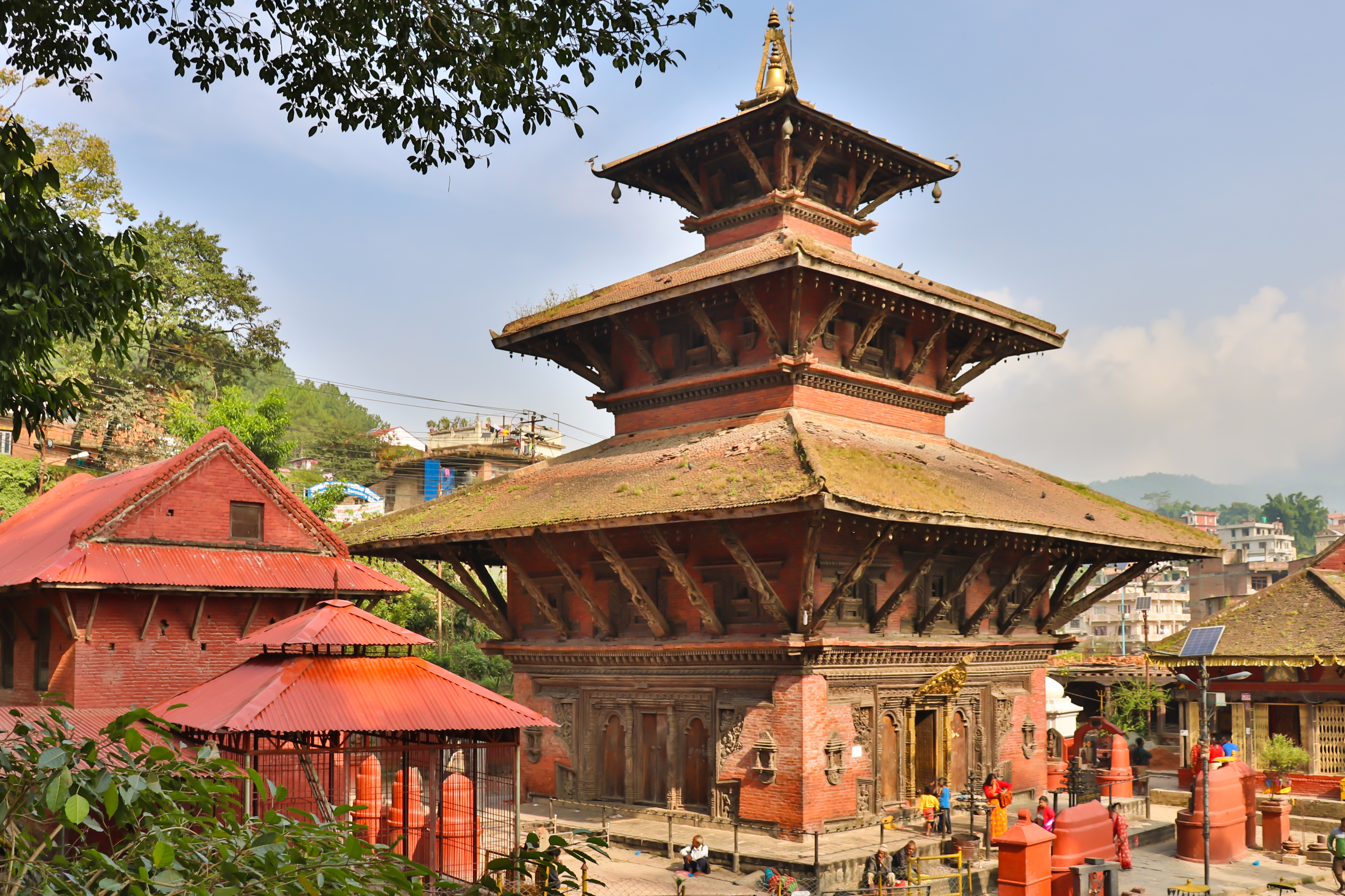 Gokarna Mahadev temple, built in 1582.[3] In late August or early September people go to this temple to bathe and make offerings in honor of their fathers, living or dead, on a day called Gokarna Aunsi.